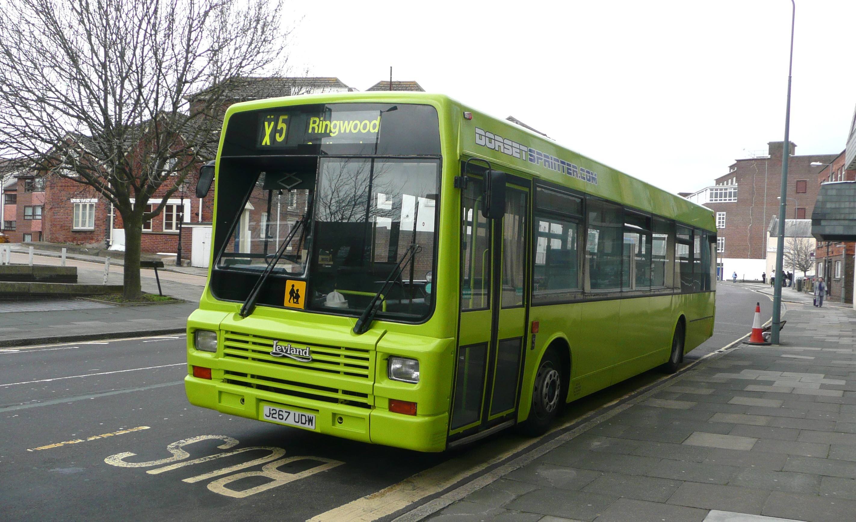 Travelguest, trading as Dorset Sprinter, J267 UDW, a Leyland Lynx, in Castle Way, Southampton, laying over between duties. It was acquired from Cardiff Bus.